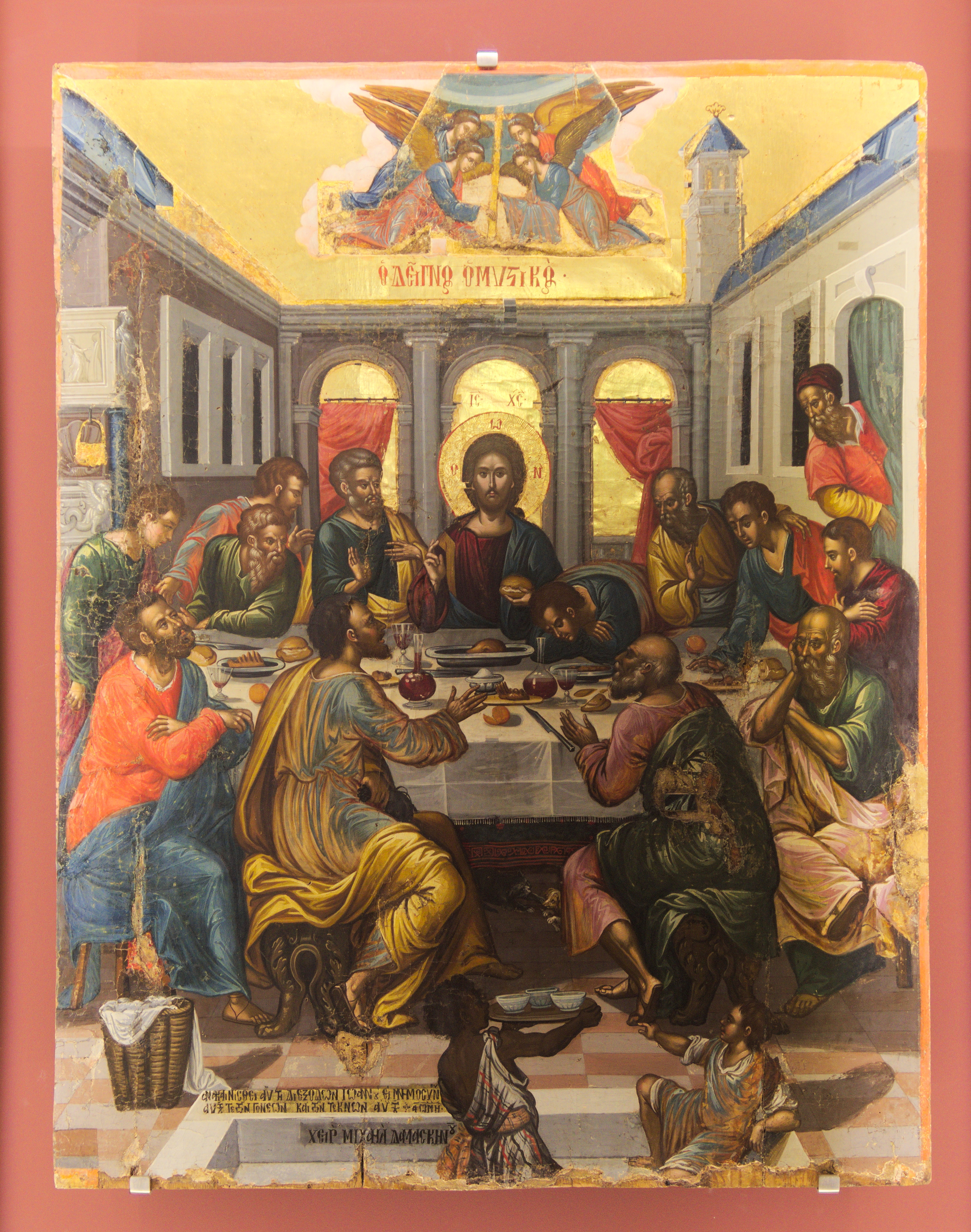 The last supper by Michail Damaskinos, 1585-1591.